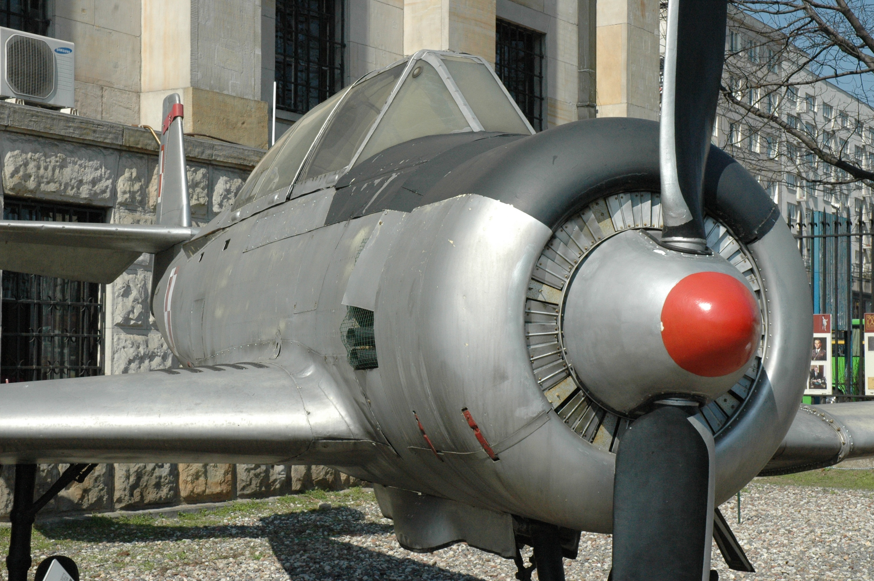 Polish TS-8 Bies trainer aircraft (displayed at the Polish Army Museum in Warsaw)